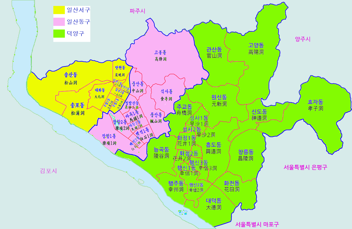 Korea-Goyang-si-map